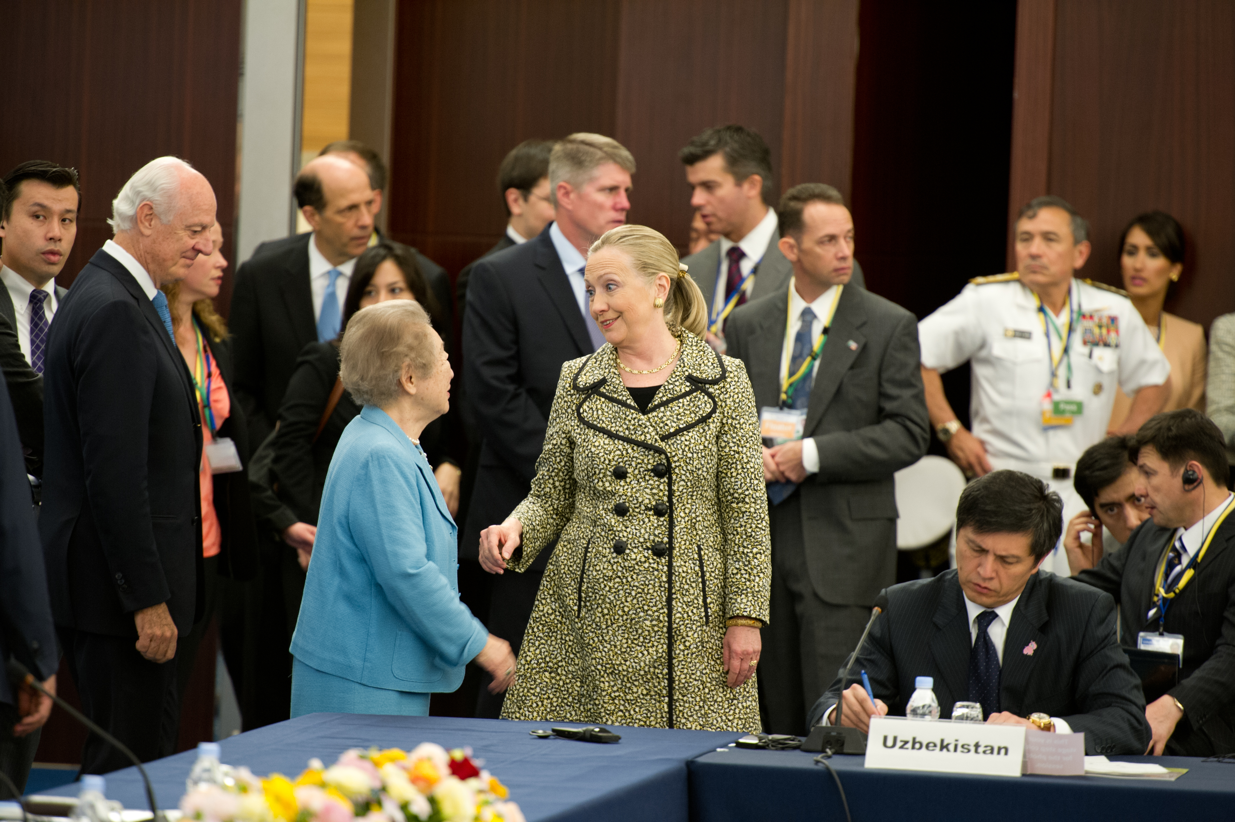 TOKYO, Japan (July 8, 2012) Secretary of State Hillary Clinton greets former United Nations High Commissioner for Refugees Sadako Ogata at the Tokyo Conference on Afghanistan [State Department photo by William Ng]